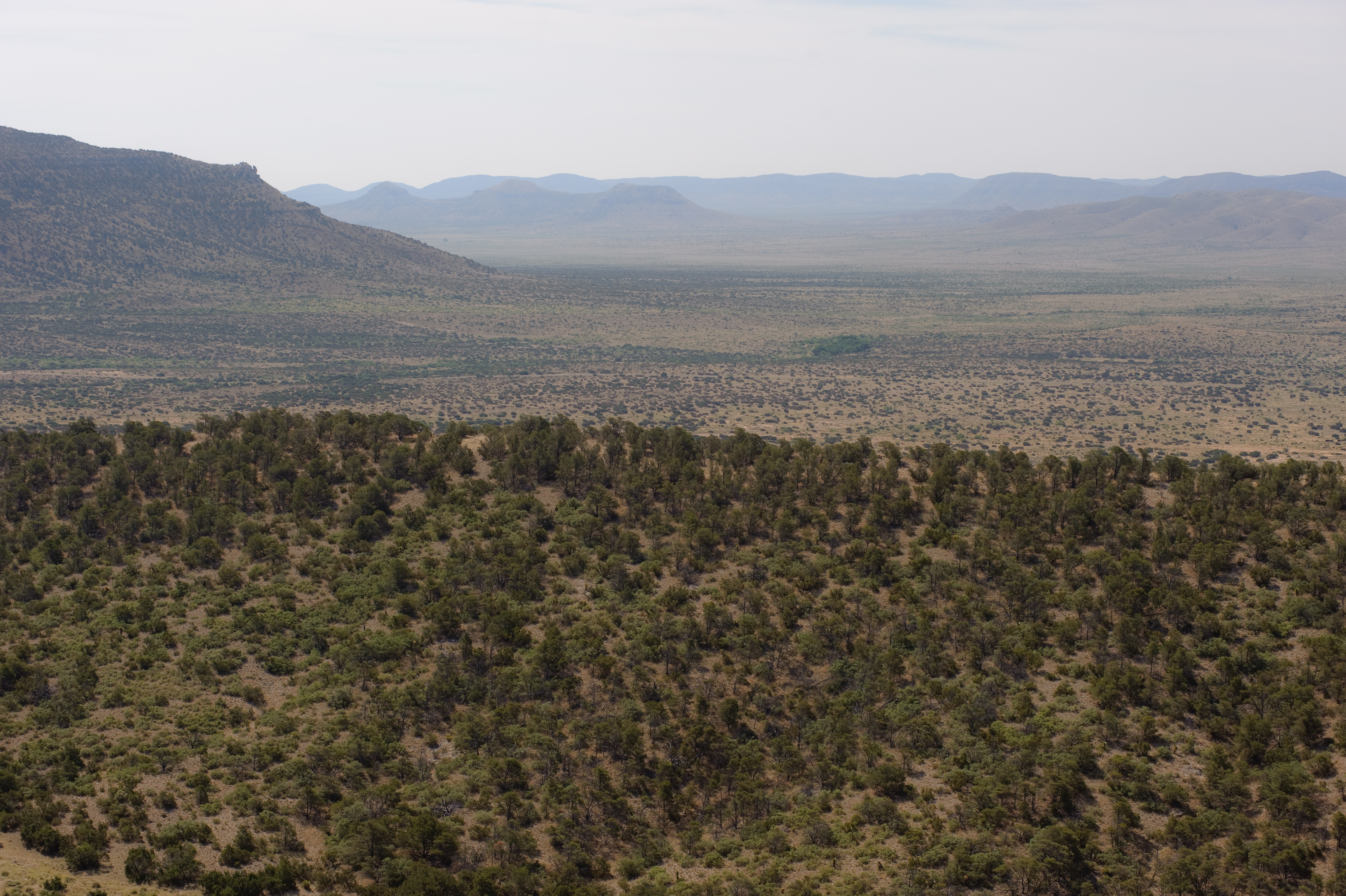 This image or file is a work of a United States Department of Agriculture employee, taken or made as part of that person's official duties. As a work of the U.S. federal government, the image is in the public domain.